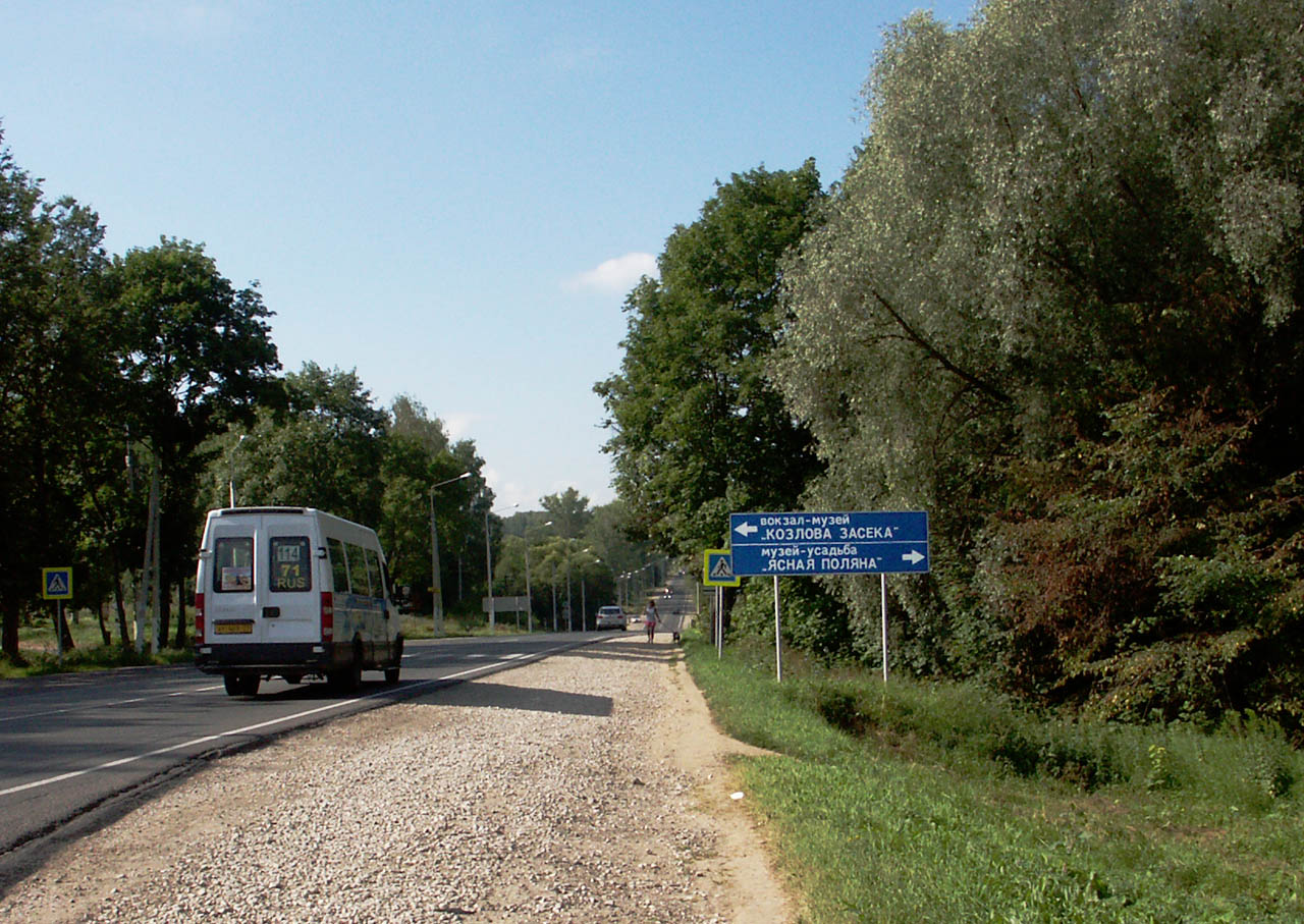 Bus stop near Yasnaya Polyana